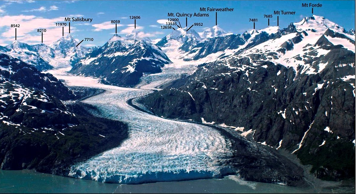 Margerie Glacier with peaks labelled